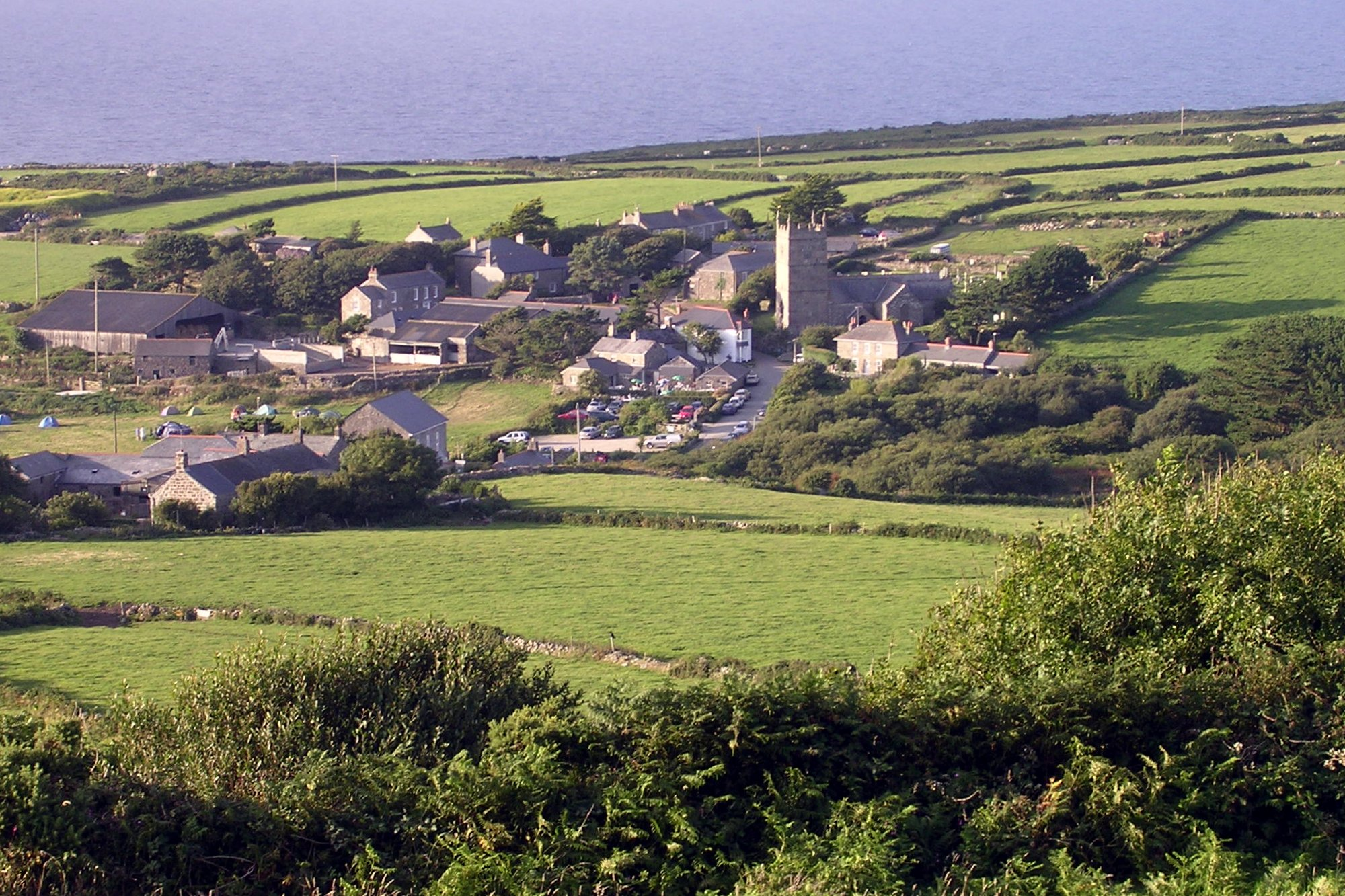 Looking down into Pendour Cove from the steps on the coastal footpath that climb Trewey Cliff above the footbridge (bottom left) over the stream from Zennor.